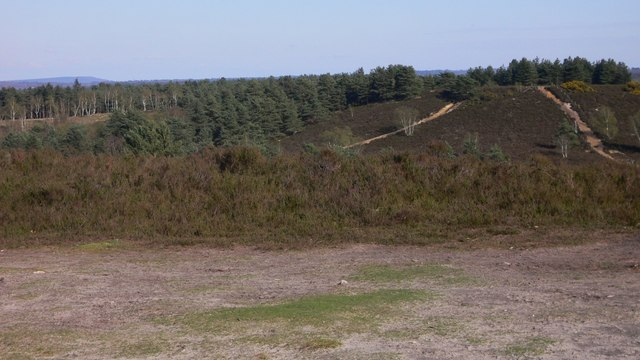 Hankley Common View across a valley in the SE corner of the grid square. The MoD buildings are hidden in the dip.